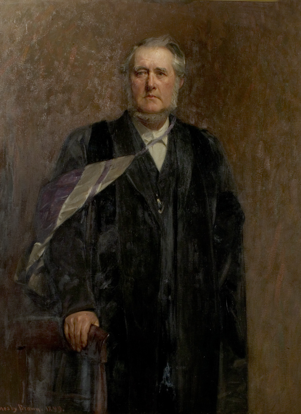 Portrait of John Brown Paton (1830–1911), Scottish Congregationalist minister.